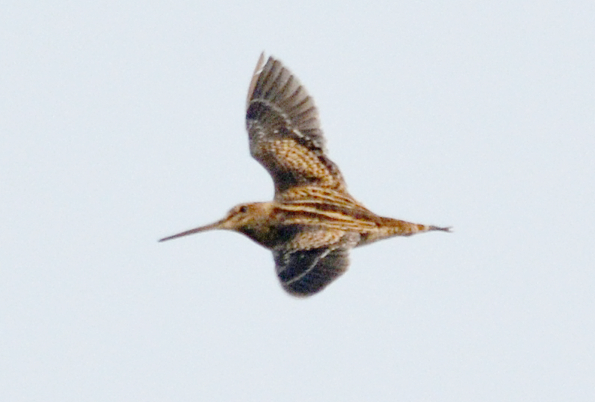 Pintail Snipe Gallinago stenura. Photographed by Dr. Raju Kasambe at Dombivli, Maharashtra, India.